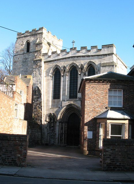 Holy Trinity church, Micklegate. Seen here from Priory Street, Holy Trinity is a puzzling church from the outside with walls and features that don't seem to quite match. The tower and parts of the body of the church are survivals from Holy Trinity Priory (see also 673252)